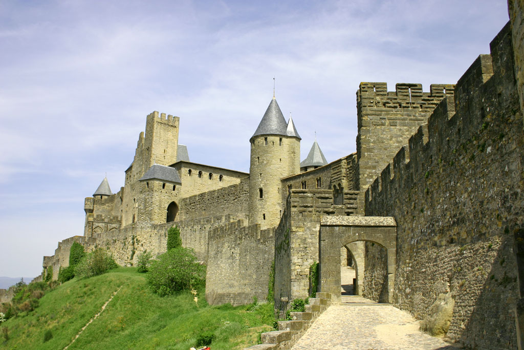 Carcassonne - The medieval city of Carcassonne